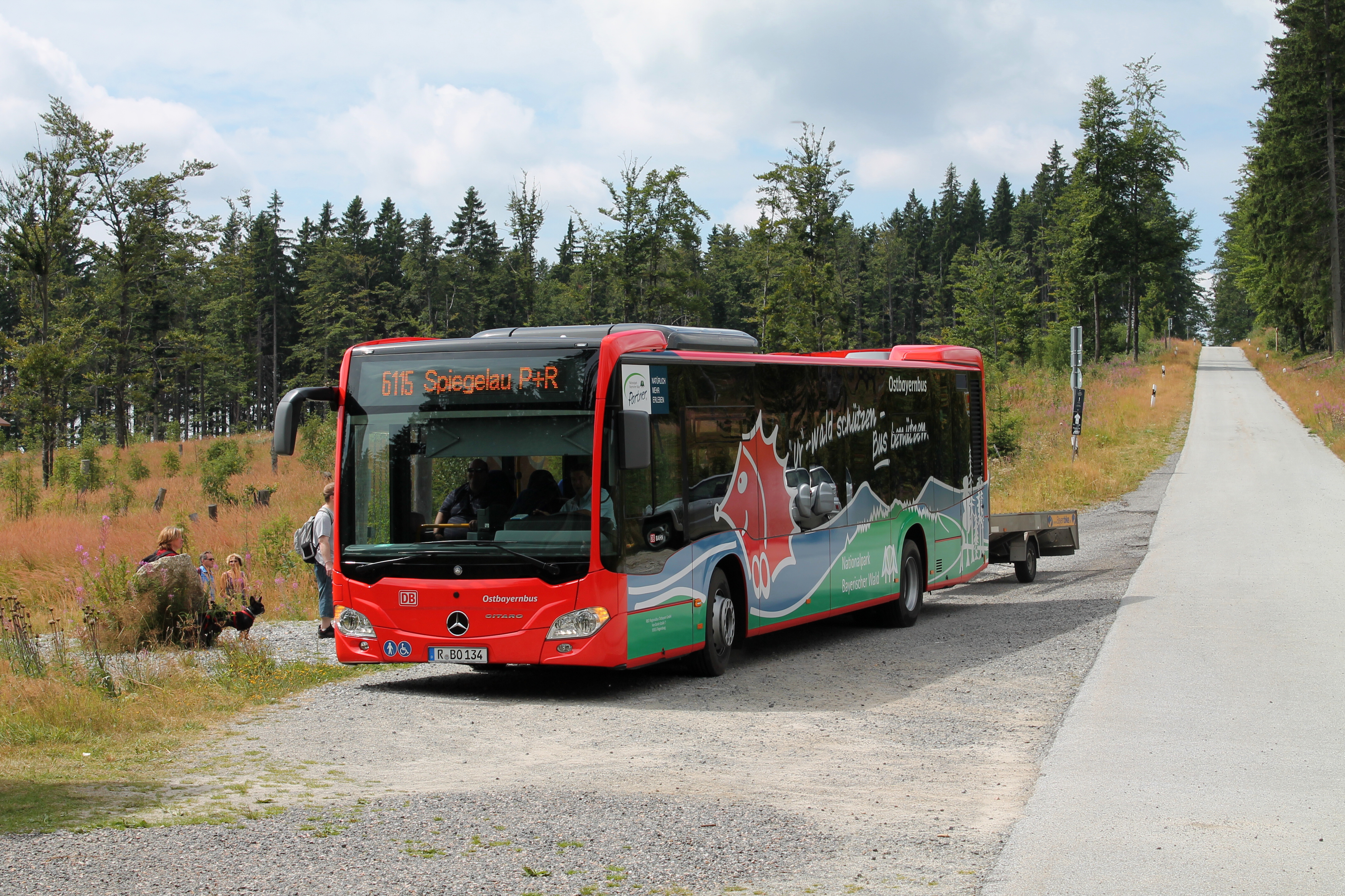 Mercedes-Benz Citaro bus of Regionalbus Ostbayern with cyclotrailer, near to Finsterau, Germany